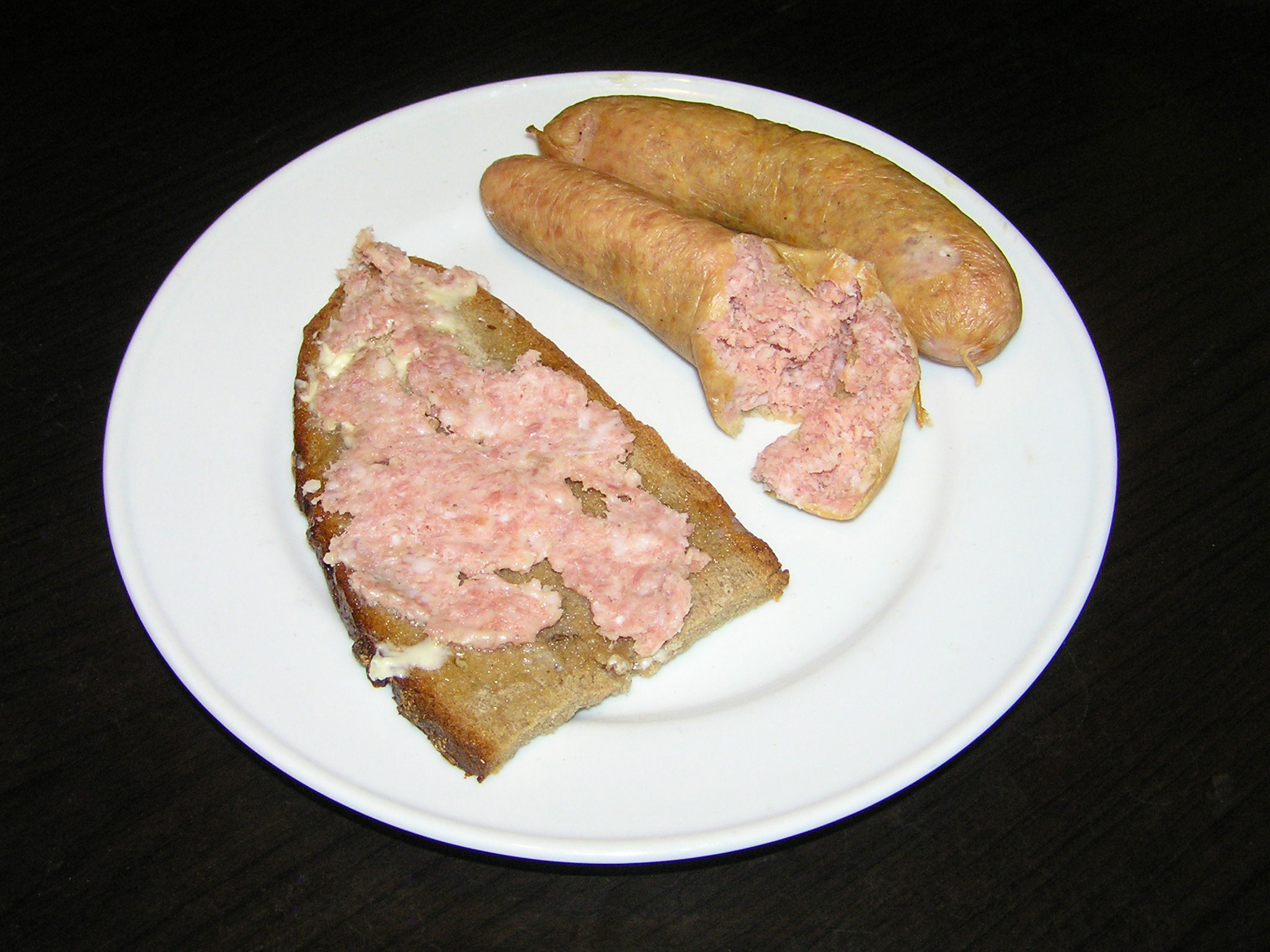 Potato sausage